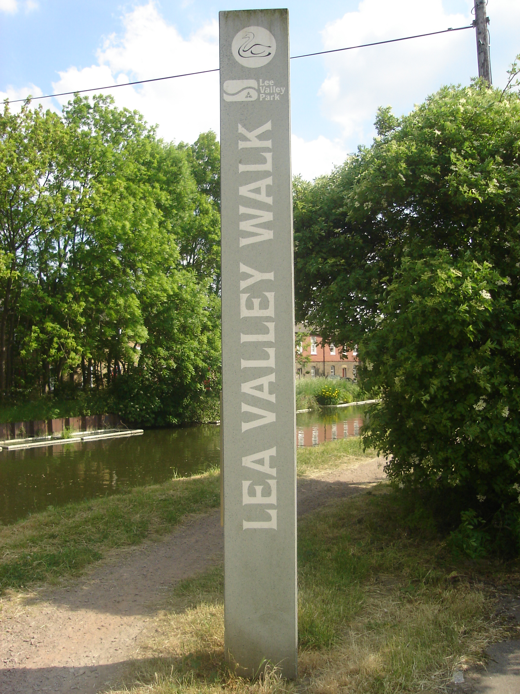 Picture of a sign post on the Lea Valley Walk at Enfield Lock